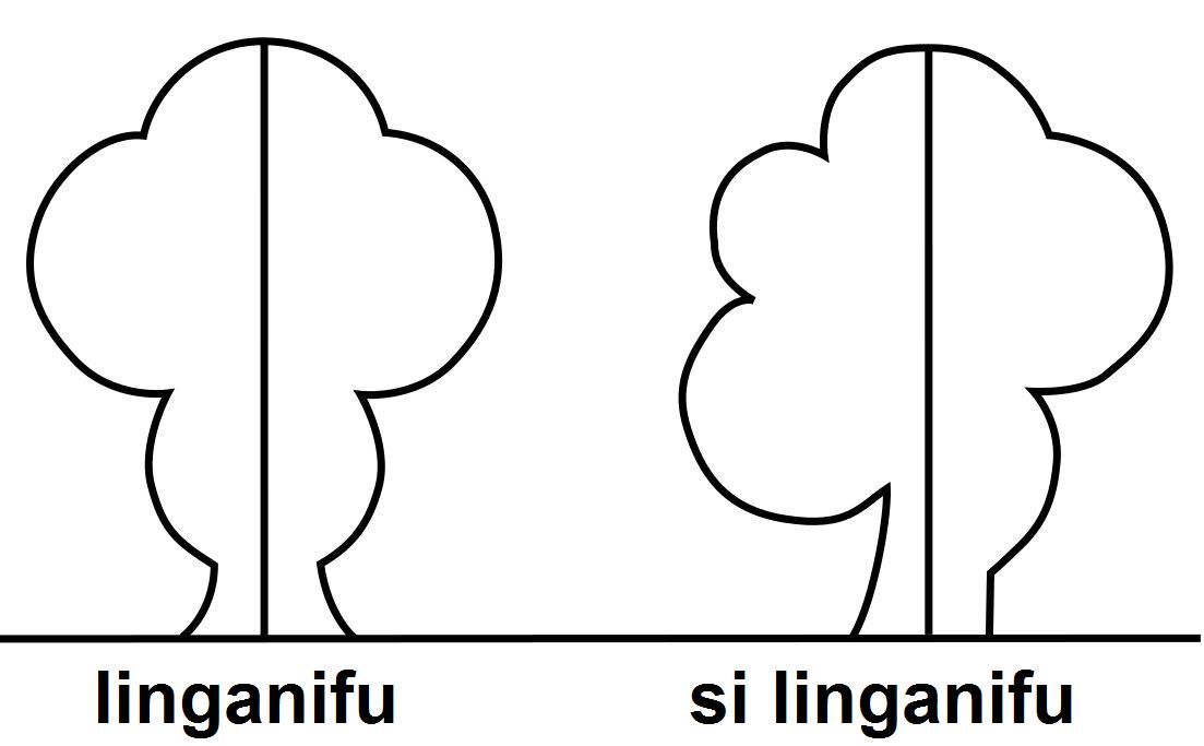 swahilized version of File:Asymmetric (PSF).svg